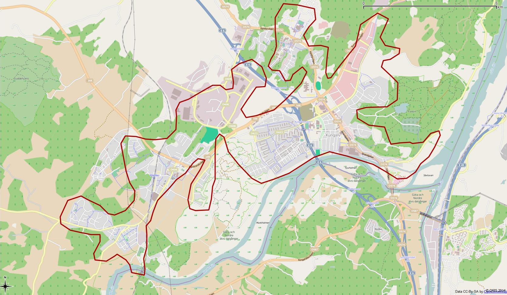 Tätorten Göteborgs gränser enligt Atlas över rikets indelningar 1992.